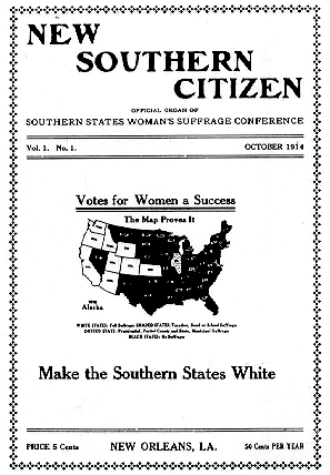 A copy of the New Southern Citizen, the monthly publication of the Southern States Woman Suffrage Association. Written by Kate Gordon and reflected racist propaganda used to promote suffrage in the South.